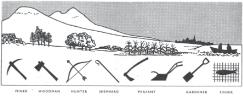 "The valley section is a longitudinal section which begins high up in the mountains and then follows the course of a river down the mountains and through a plain toward its estuary at the coast...he expresses in the valley region that Enlightenment theory of social evolution that describes mankind’s development through the four stages of hunting, pastoral, and agriculture toward commercial societies." (Volker M. Welter, "Post–war CIAM, Team X, and the Influence of Patrick Geddes", p 91)